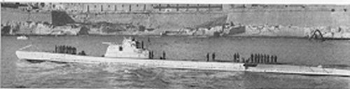 Turkish submarine Gür